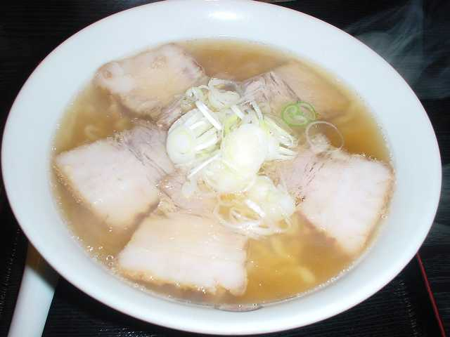 Kitakatara-men